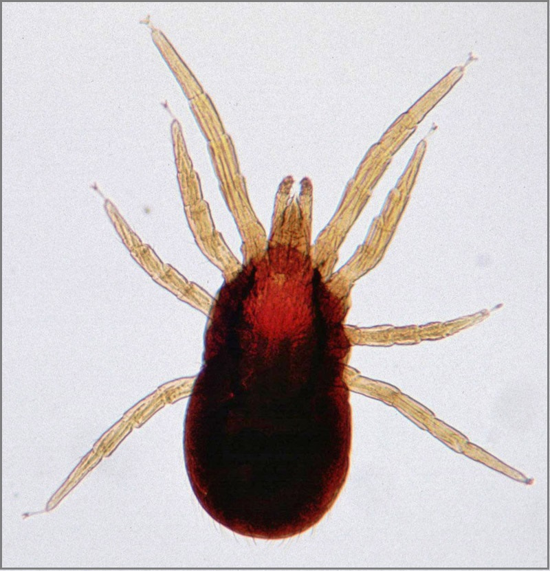 Photograph of a parasitic mite of domestic animals.